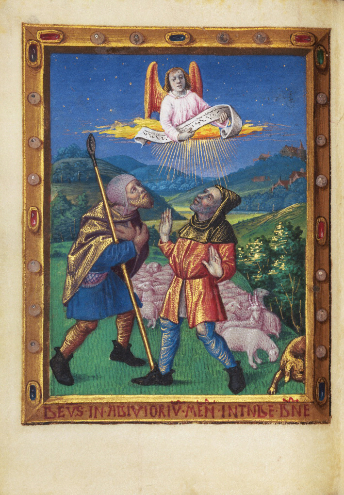 Georges Trubert, The Annunciation to the Shepherds, about 1480-1490. Tempera colors, gold leaf, gold and silver paint, and ink on parchment, 11.4 x 8.6 cm. The J. Paul Getty Museum